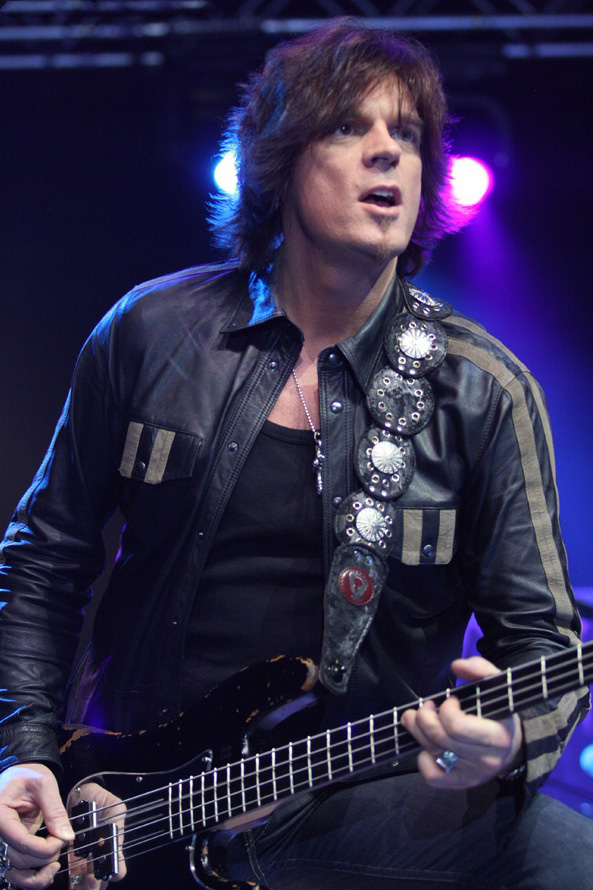 John Levén in 2009.